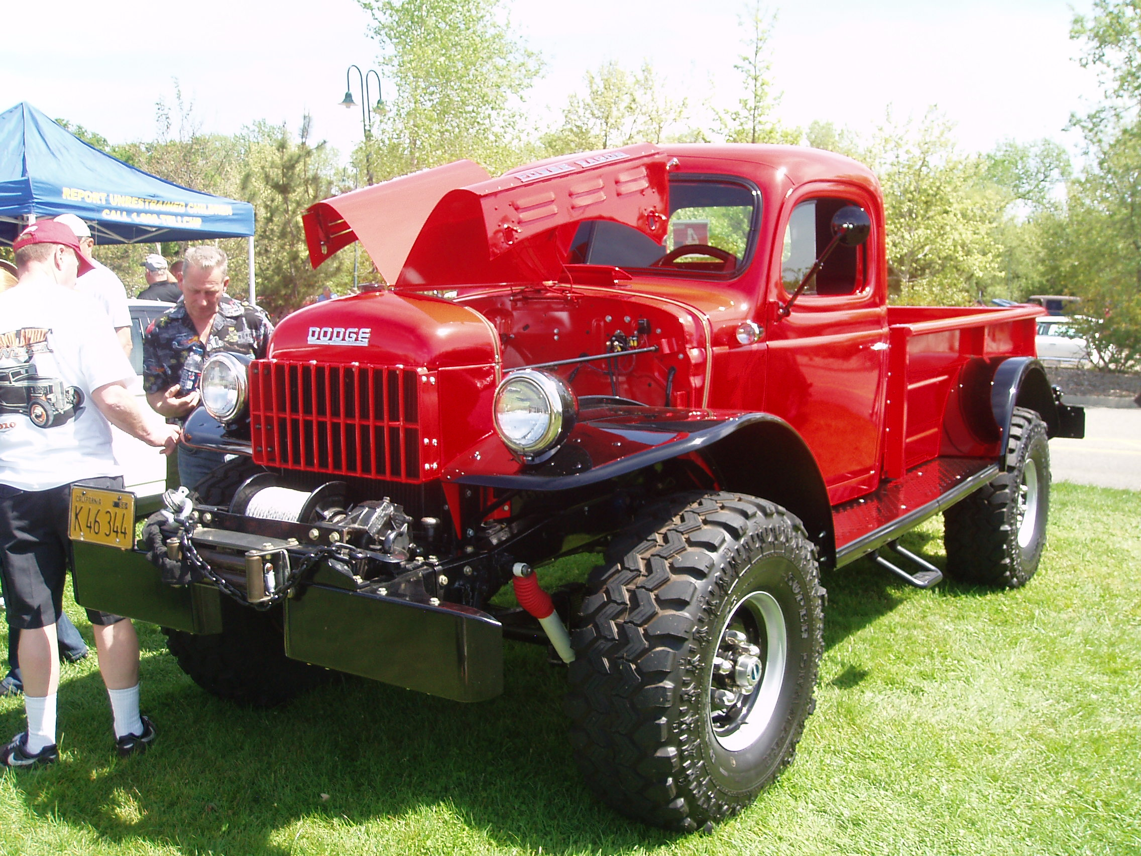 Dodge Power Wagon WM-300 (note correction) truck at Kool April Nights, Redding CA, April 17, 2010.